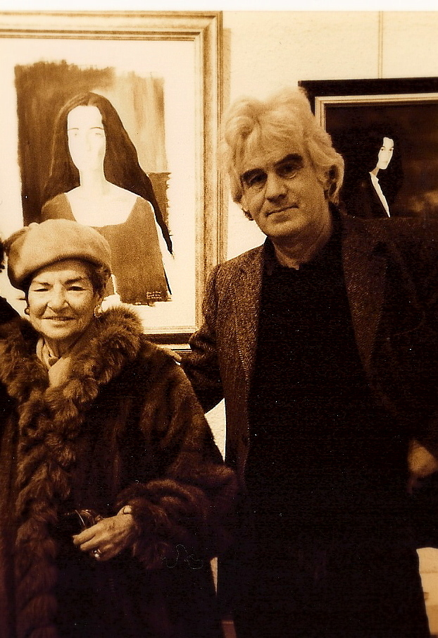 Juliet Man Ray with Reginald Gray